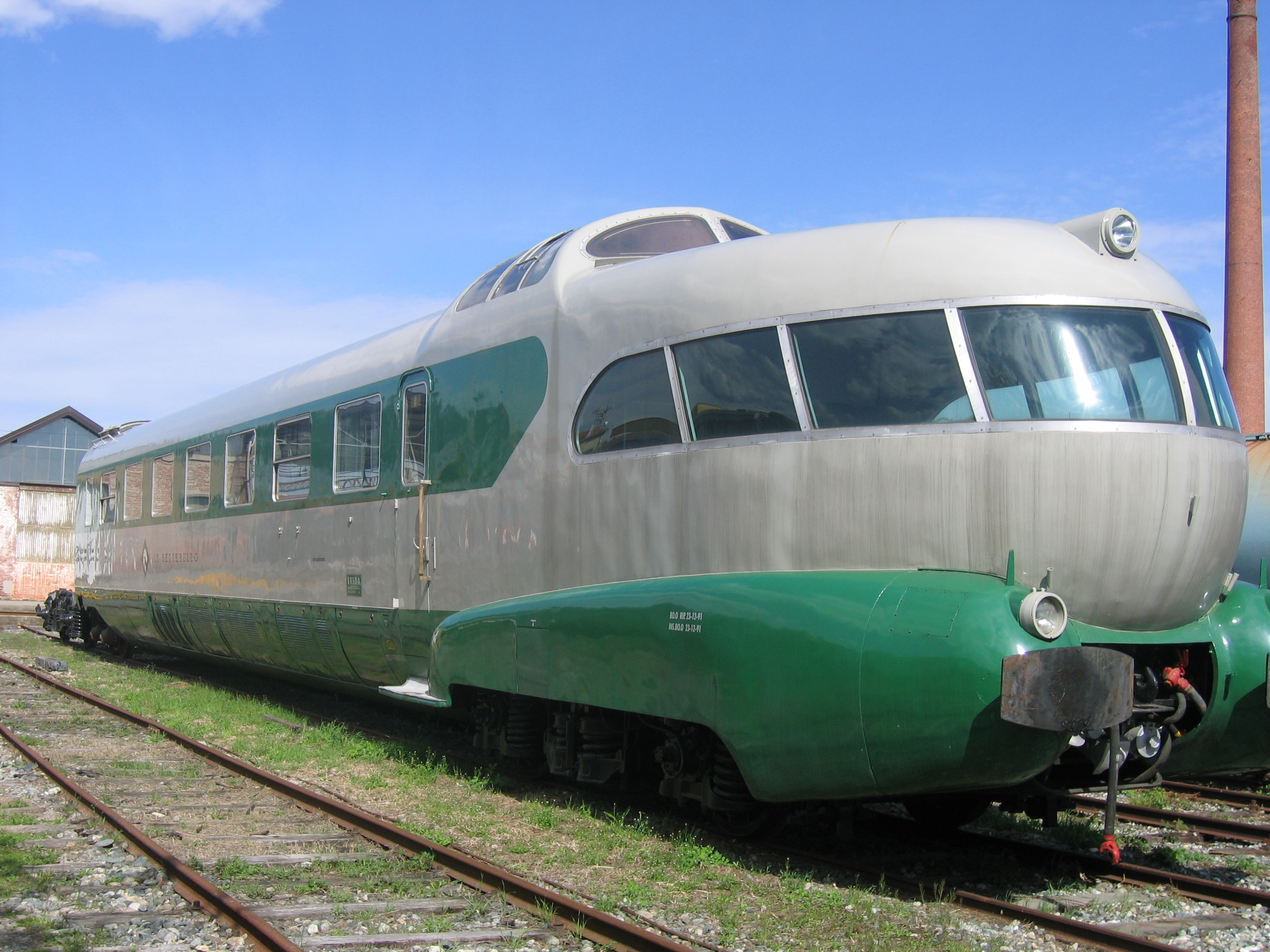 The last surviving power car of the ETR.300 class, or "Settebello-type", in Santhià (TO), Italy. Rebuilt from ETR.252